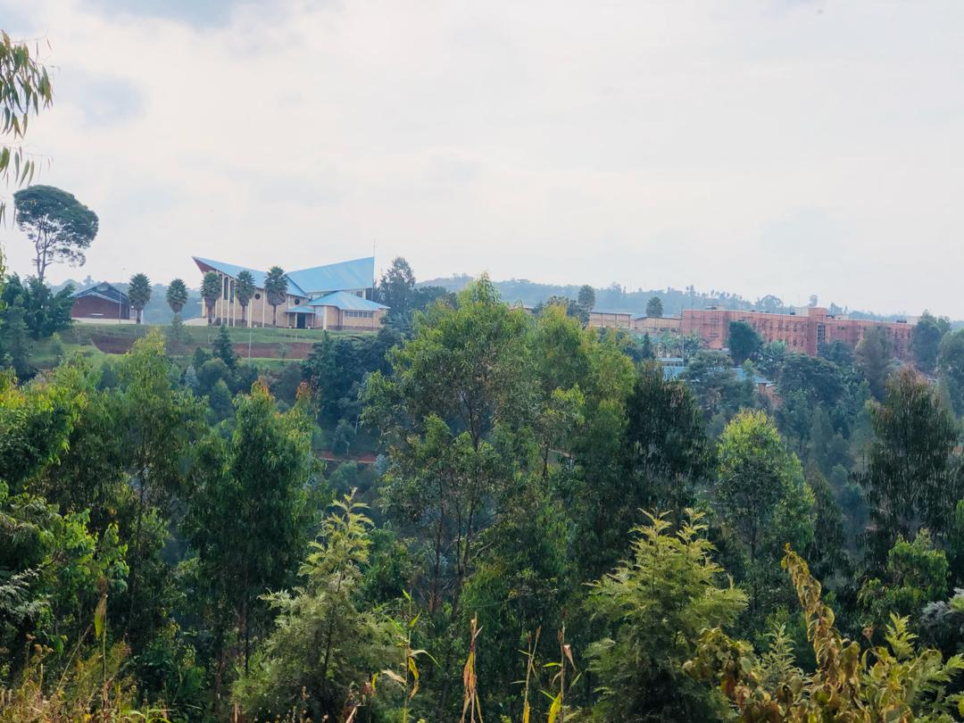 Very beautiful Nature